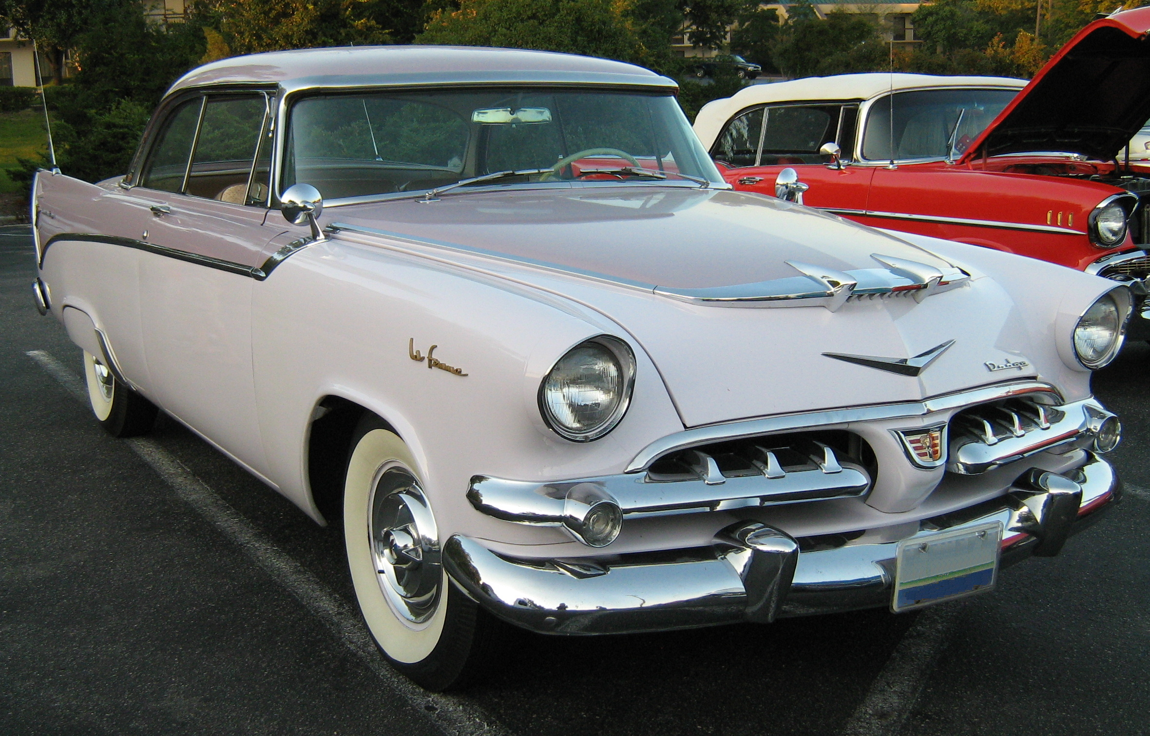 1956 Dodge La Femme two-door hardtop (no "B-pillar" body design) - front view. Picture taken at a car club meeting in Southern Pines, NC. Also seen on the right is part of a 1957 Chevrolet.